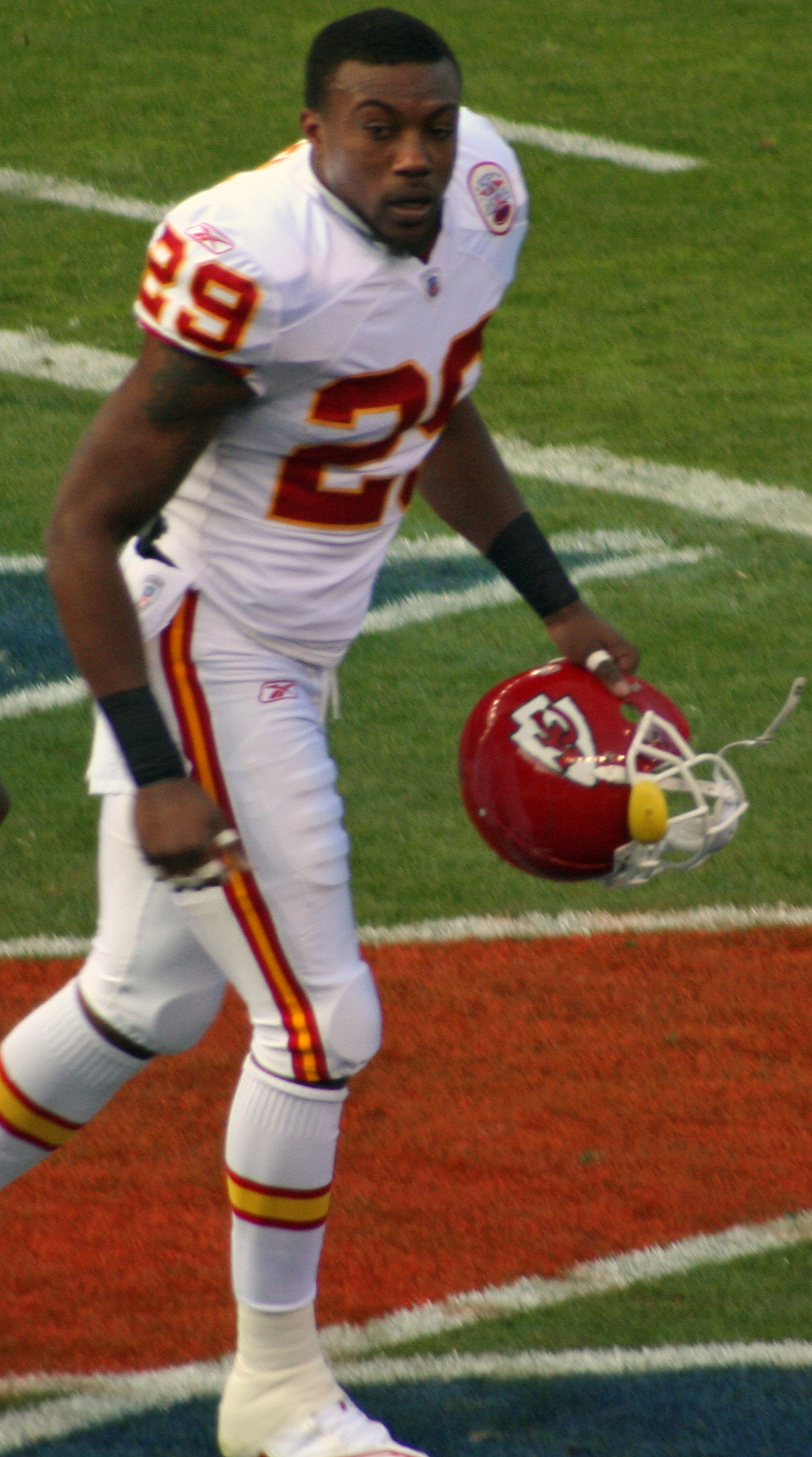 Eric Berry, a player on the Kansas City Chiefs American football team.